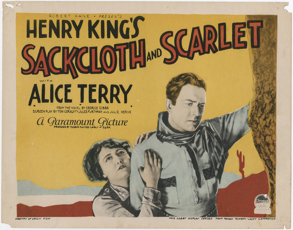 Lobby card for the American film Sackcloth and Scarlet (1925) starring Alice Terry. Part of the Western silent films lobby card collection at the Yale Collection of Western Americana, Beinecke Rare Book & Manuscript Library, Yale University.